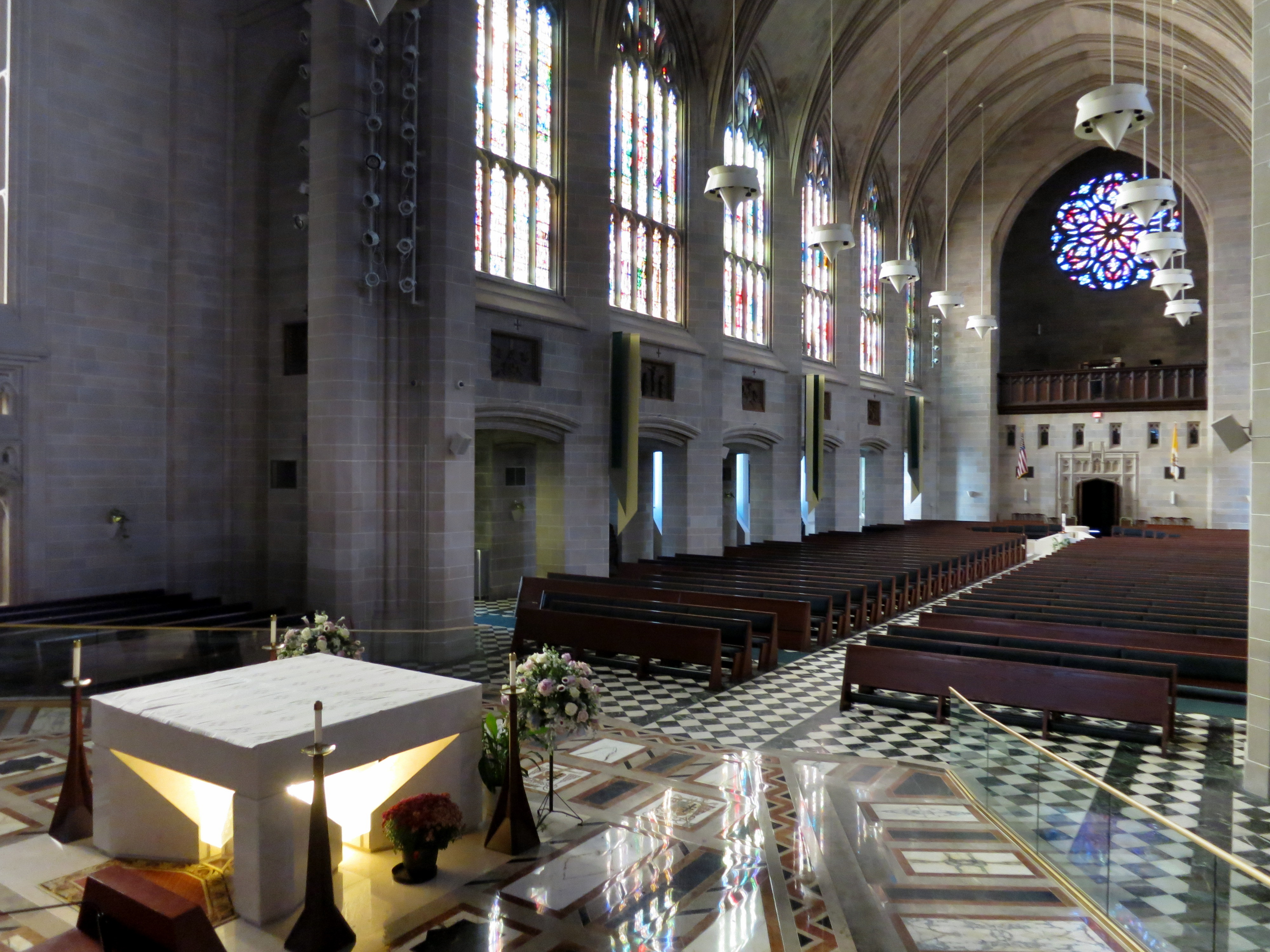 Cathedral of the Most Blessed Sacrament (Detroit, Michigan) - view from the ambo